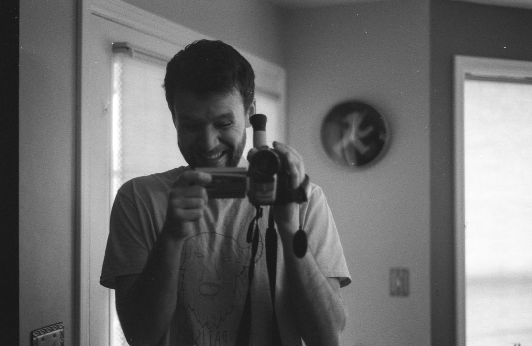 music